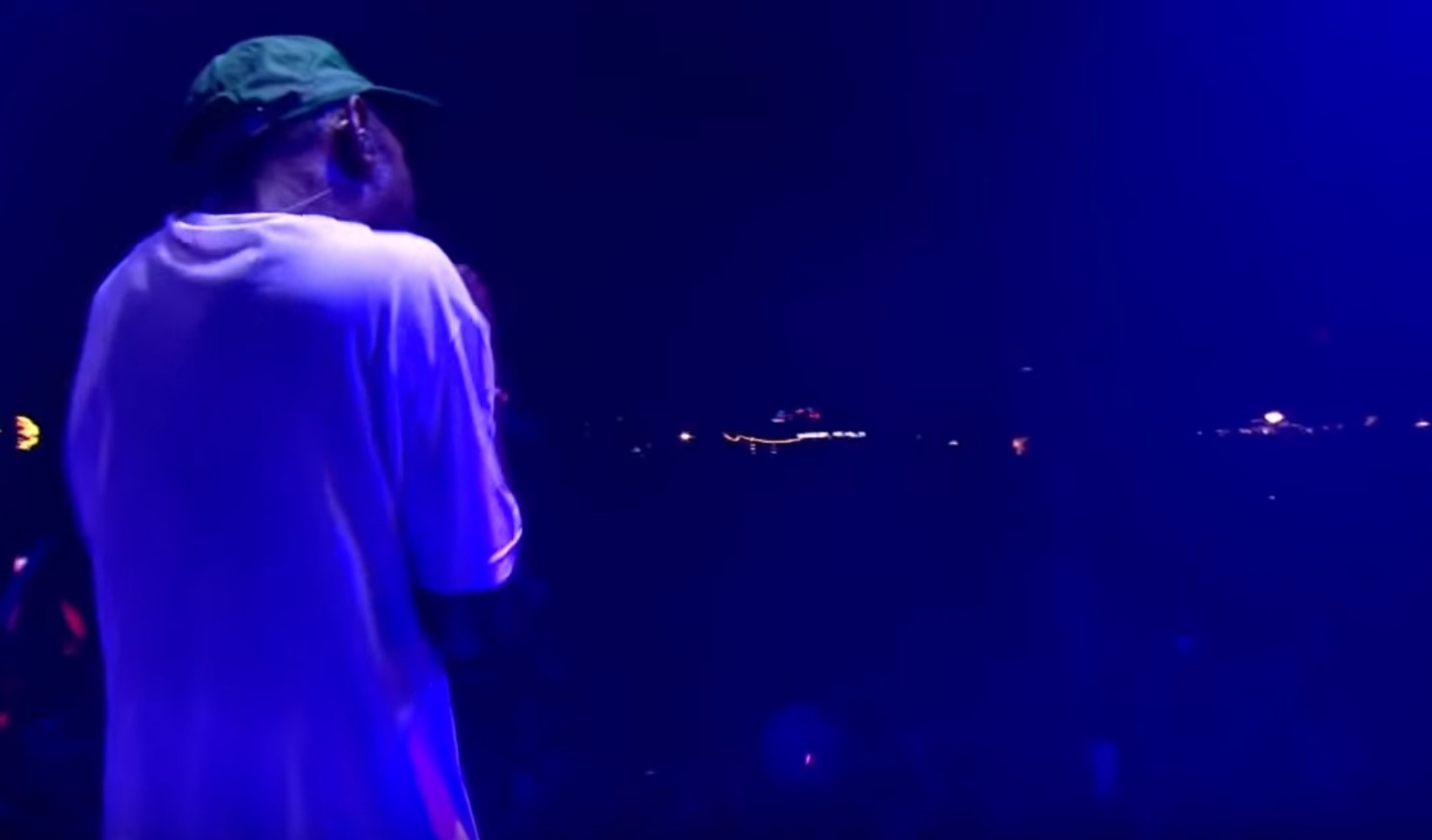 Tyler the Creator performing Live at Bonnaroo 2016